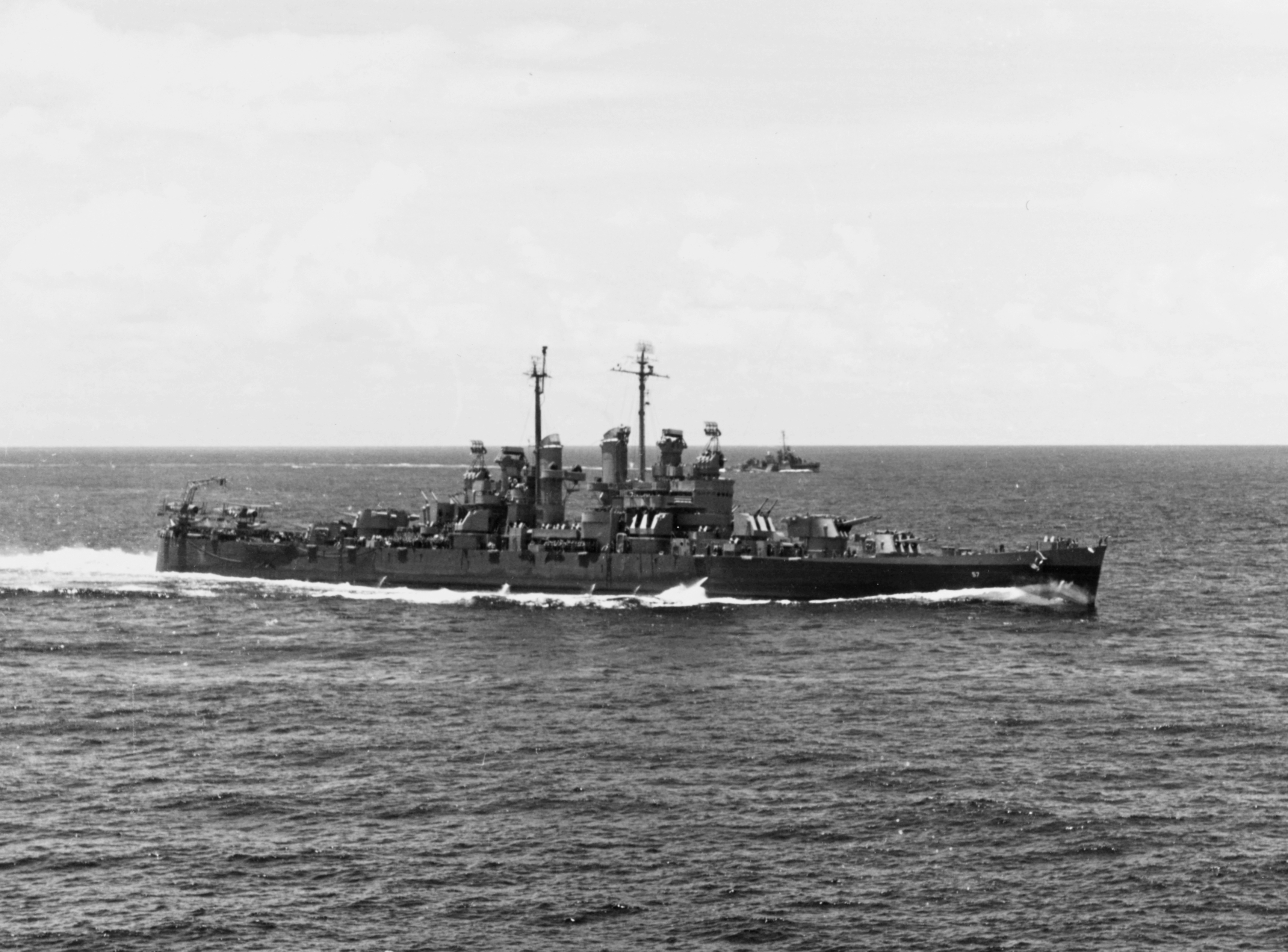 The U.S. Navy light cruiser USS Montpelier (CL-57) and a destroyer en route from the Marshall Islands to take part in the invasion of Saipan, 11 June 1944. The photo was taken from the escort carrier USS Gambier Bay (CVE-73).